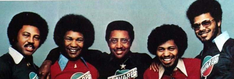 Photo of the music group Tavares.